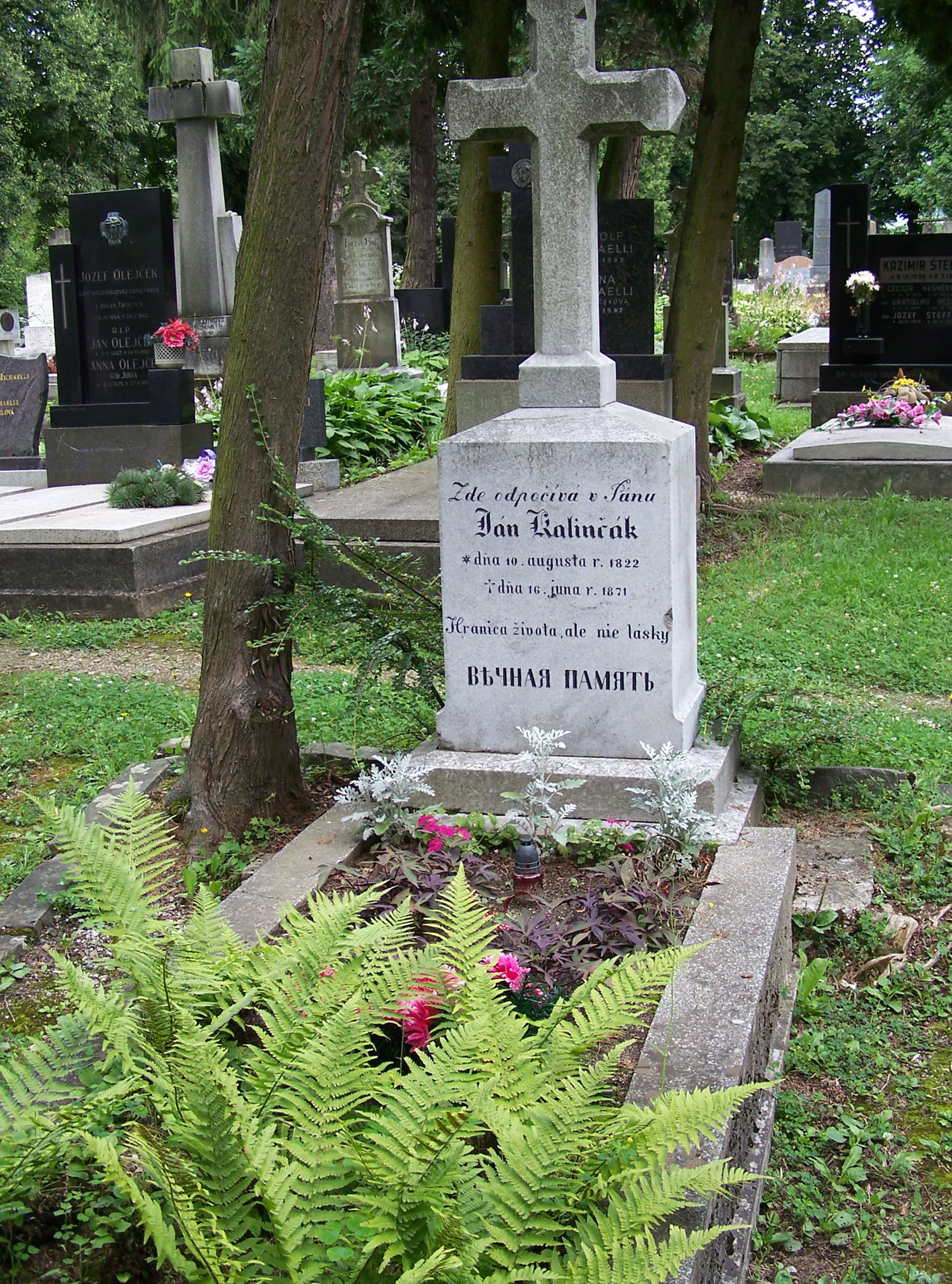 Grave of Ján Kalinčiak at the National Cemetery in Martin, Slovakia